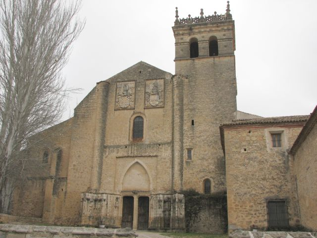 Segovia. Monasterio El Parral